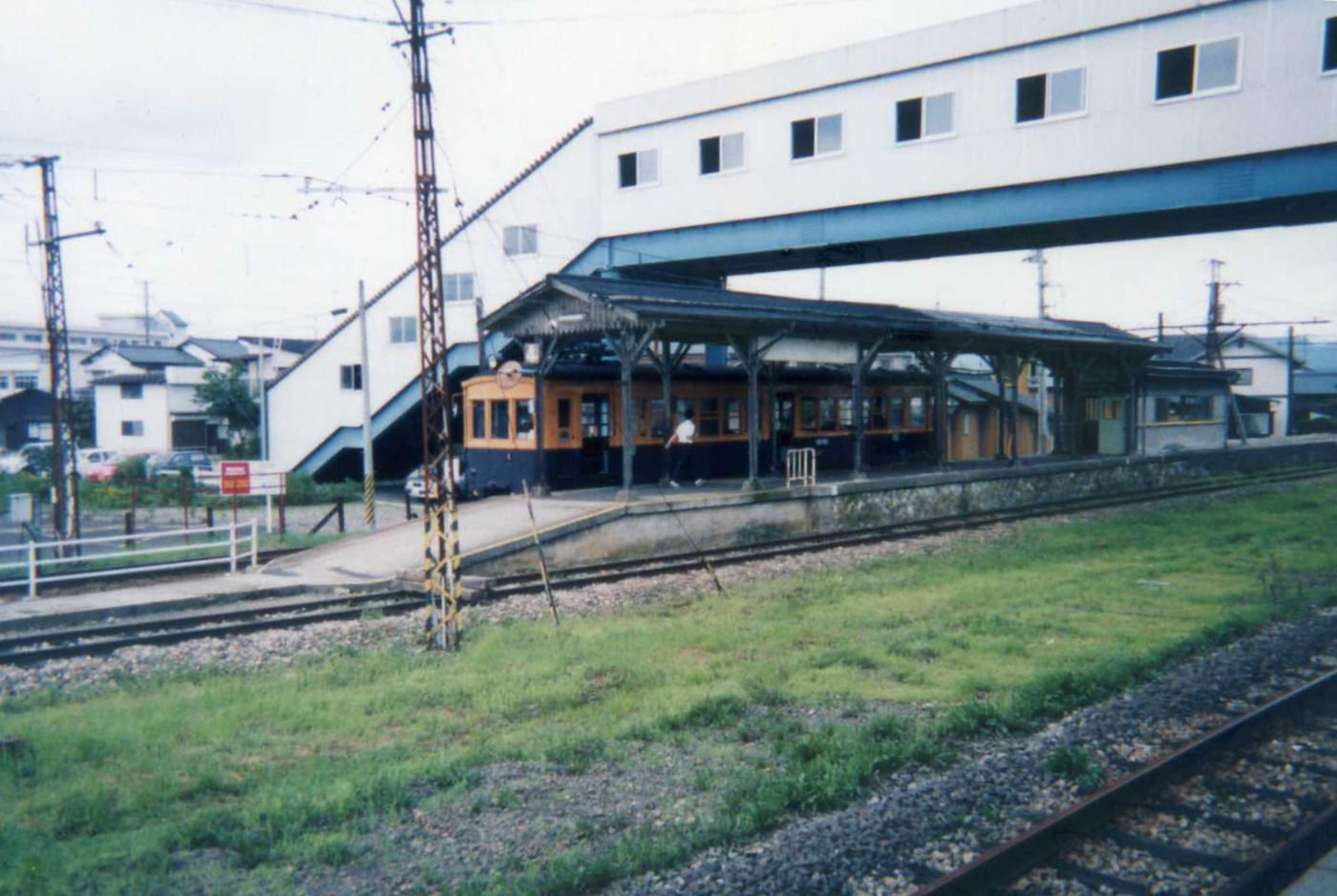 Kanbara Tetsudo Gosen station platforms